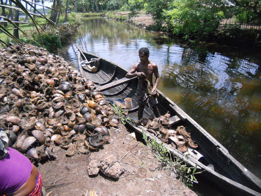 Coir worker This media file is uploaded with India loves Wikipedia event.